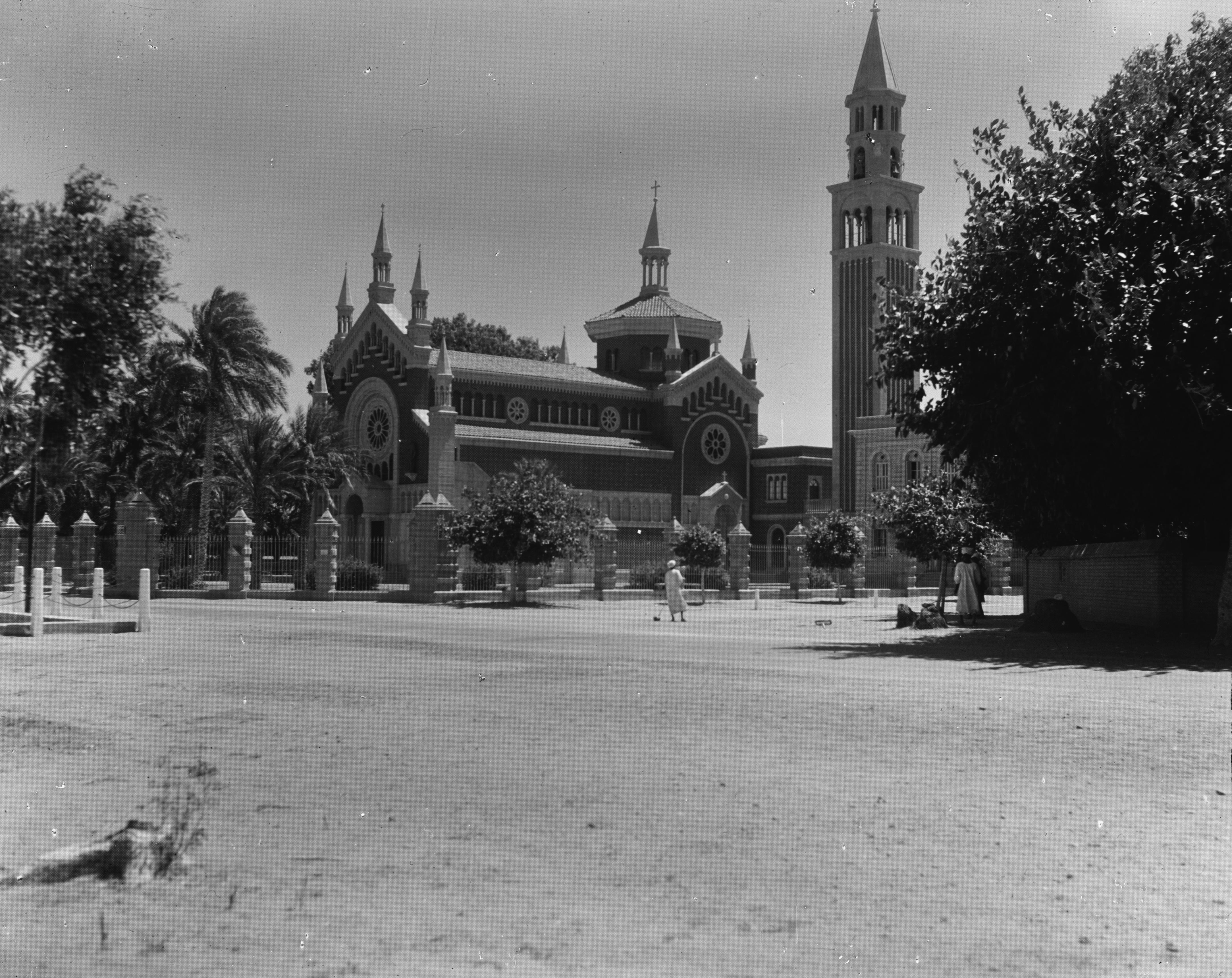 Sudan. Khartoum. St. Matthew's Catholic Cathedral. 1936.